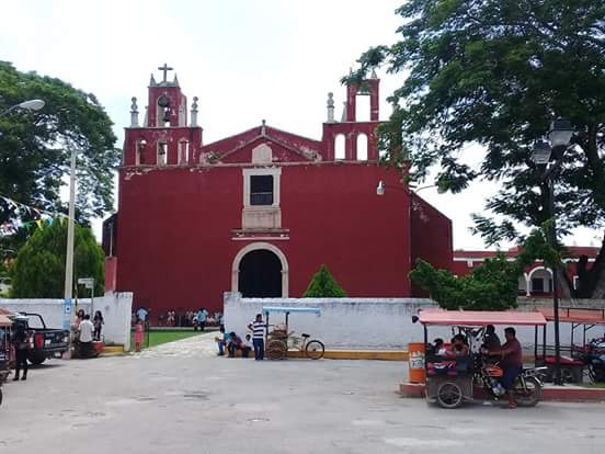 Ésta es la iglesia de teabo